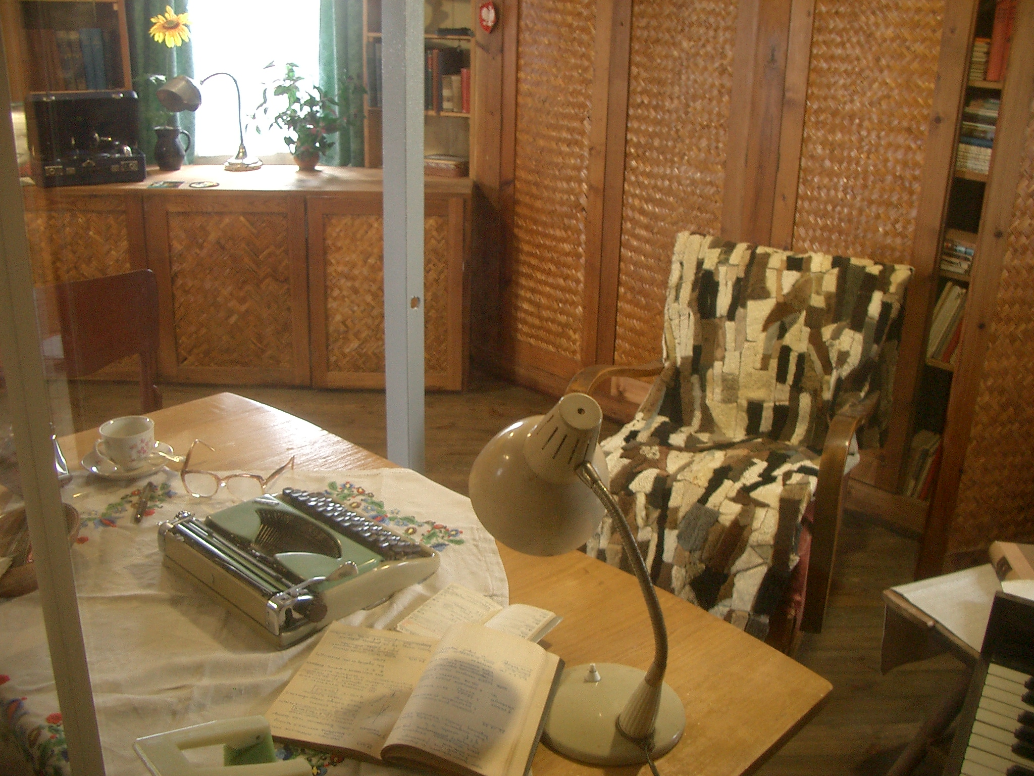 part of kpt. Borchardt exibition in Museum of Coastal Defence in Hel (Poland)